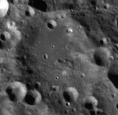 Stokes lunar crater. Part of the chart LAC-21.